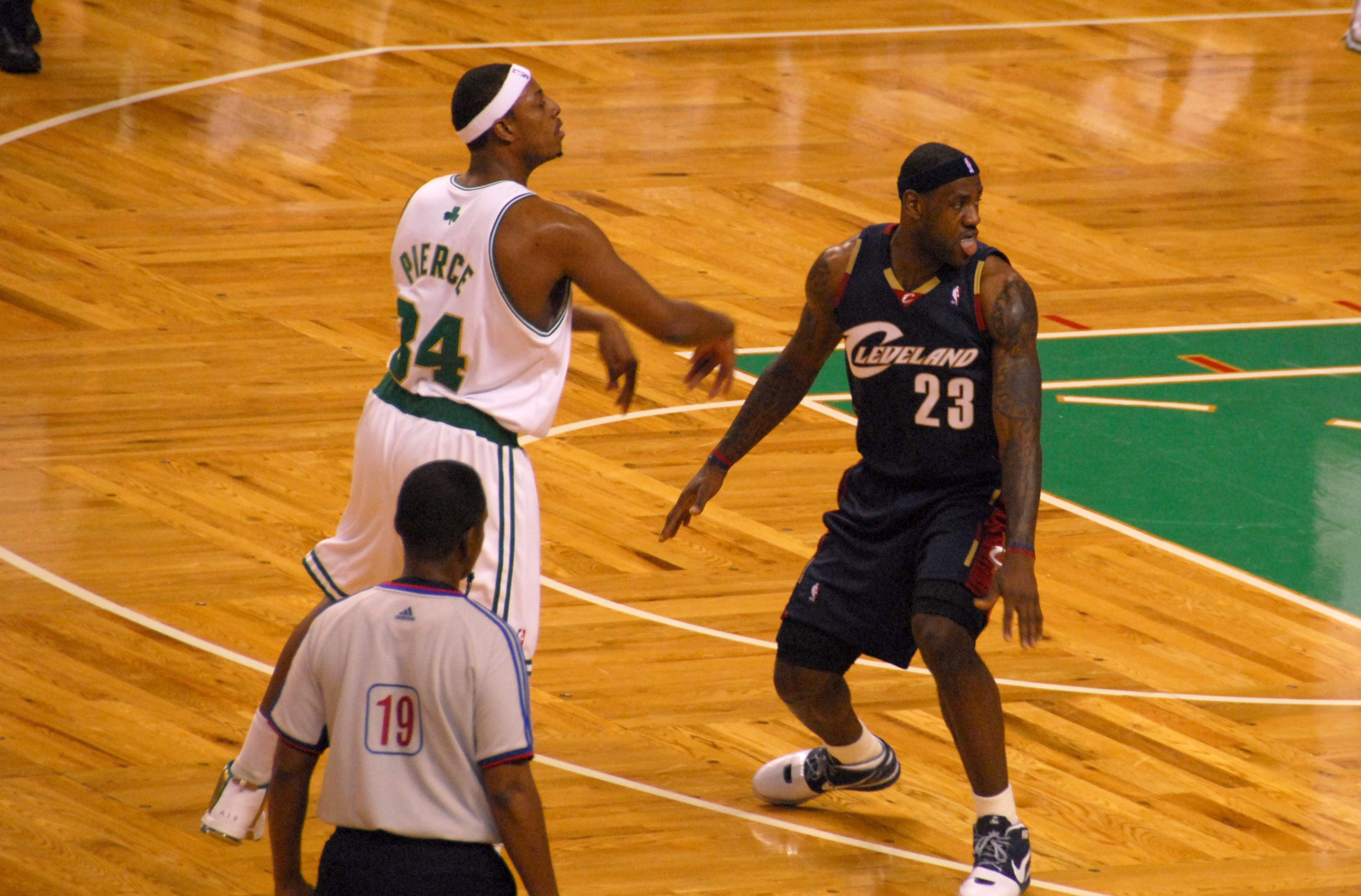 LeBron sporting the Jordan tongue